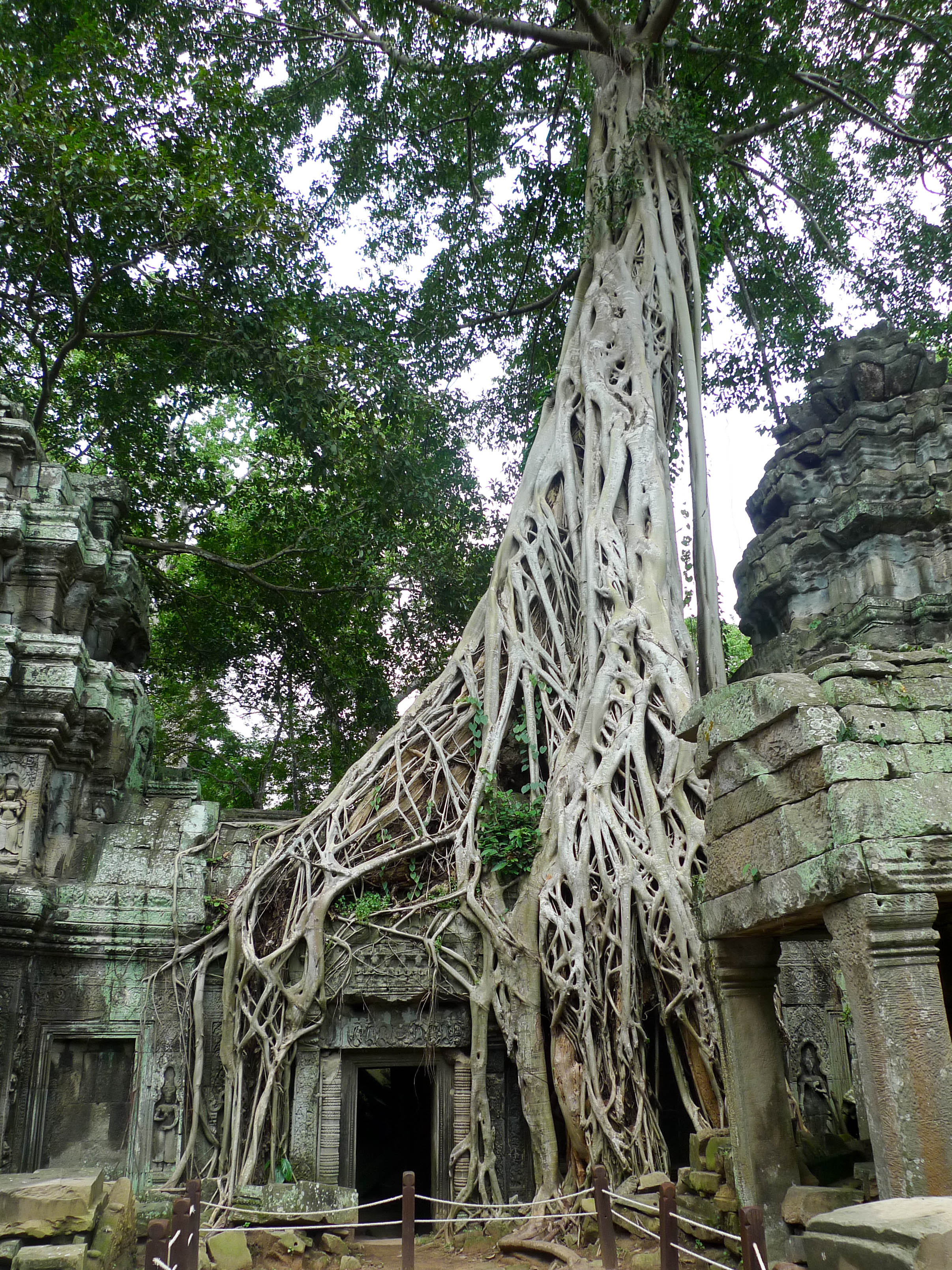 Tree roots and temple, Ta Prohm, Angkor, Cambodia